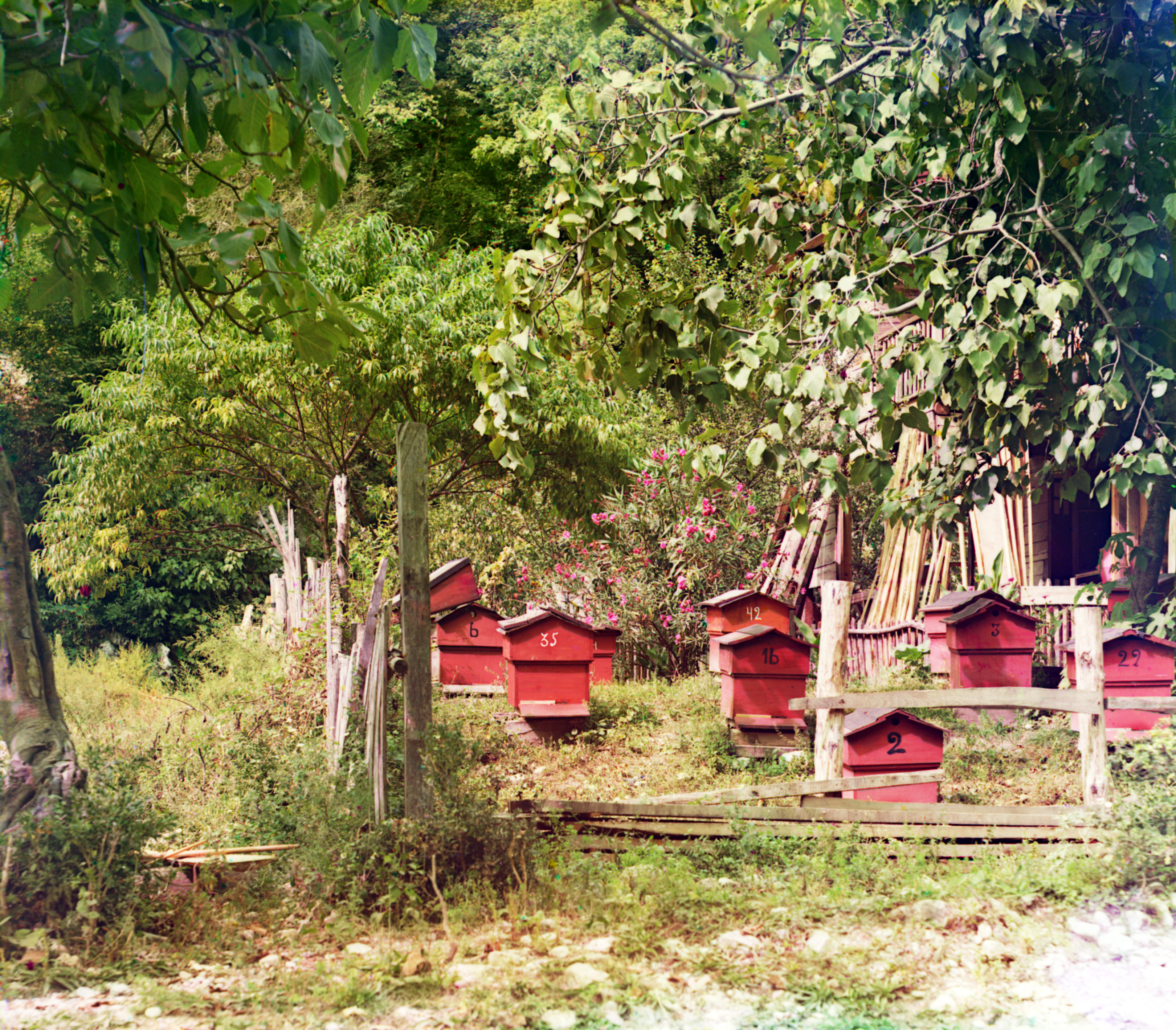 Peasant apiary near Gagra